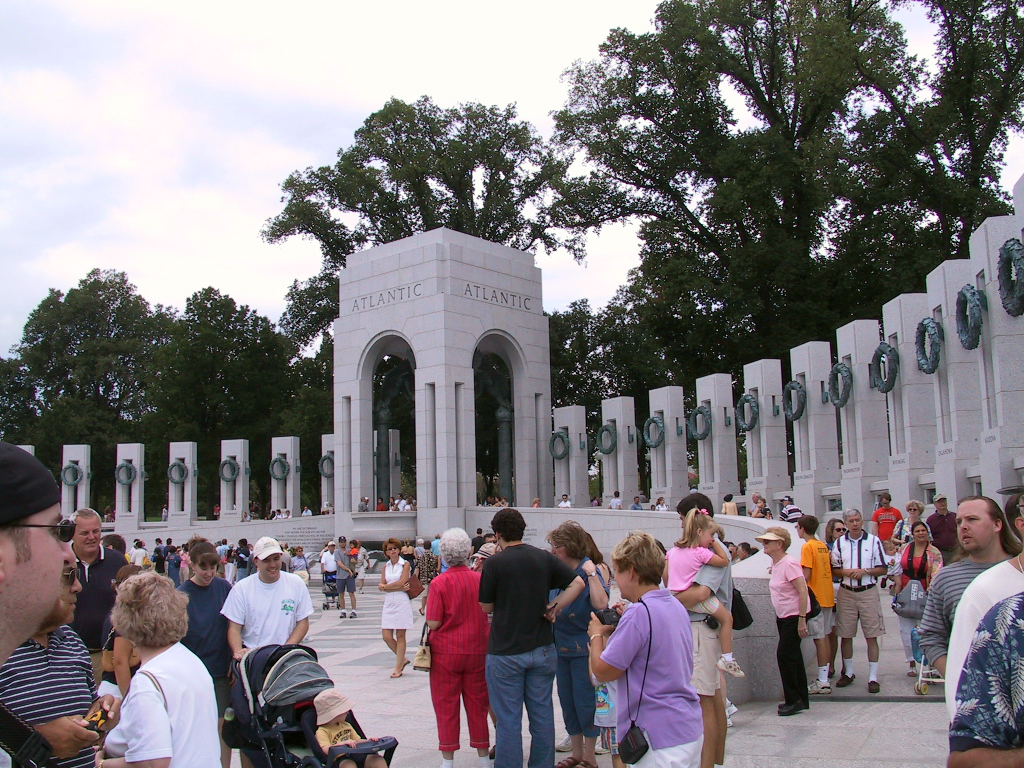 The Atlantic side of the World War II Memorial on the National Mall in Washington, DC